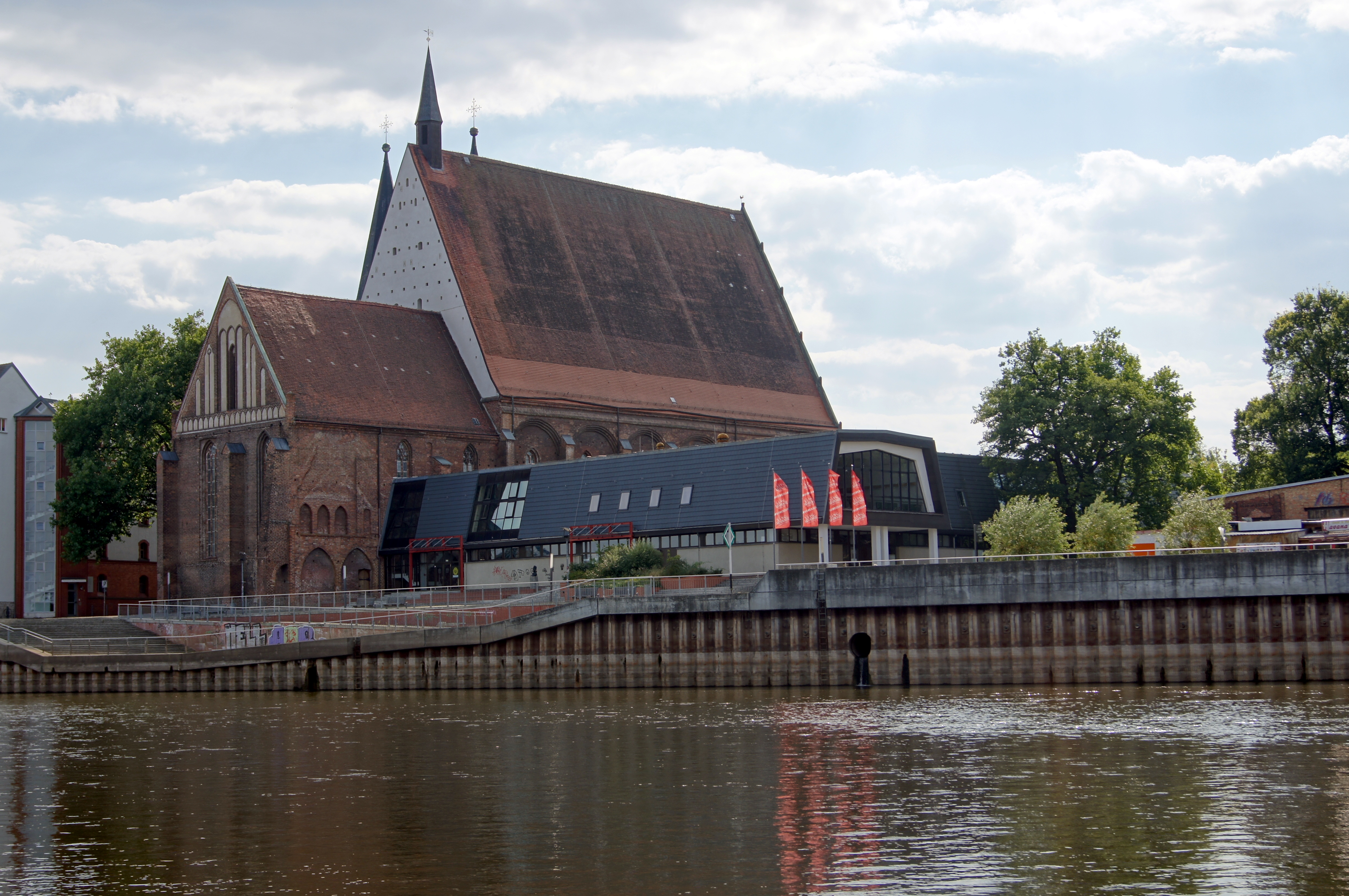 Oder River in Frankfurt (Oder) and Słubice with mouth of creek Stadtgraben into river Oder